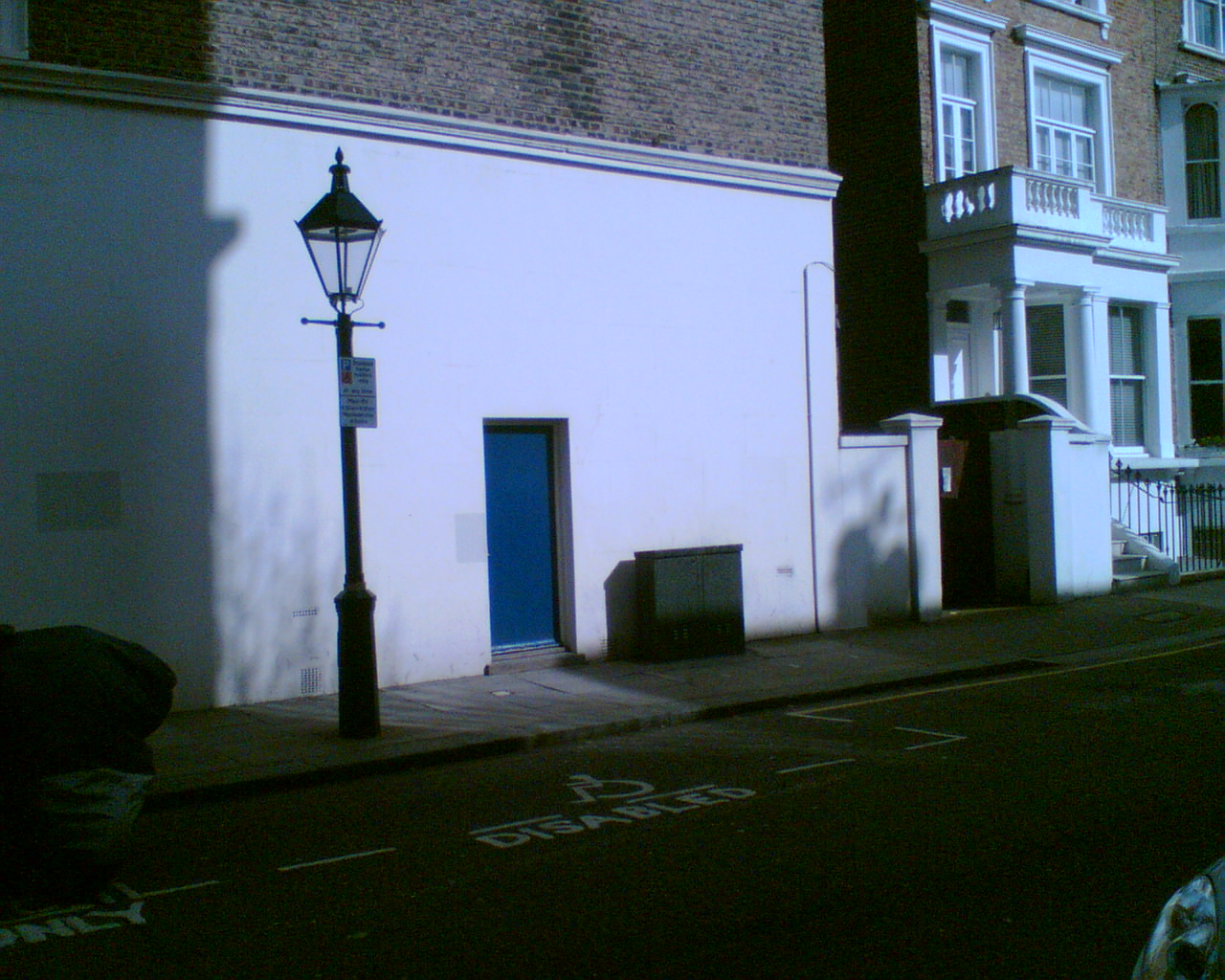 The door of the Gateways Club in Chelsea - taken March 2007 Fluffball70 19:54, 9 March 2007 (UTC)